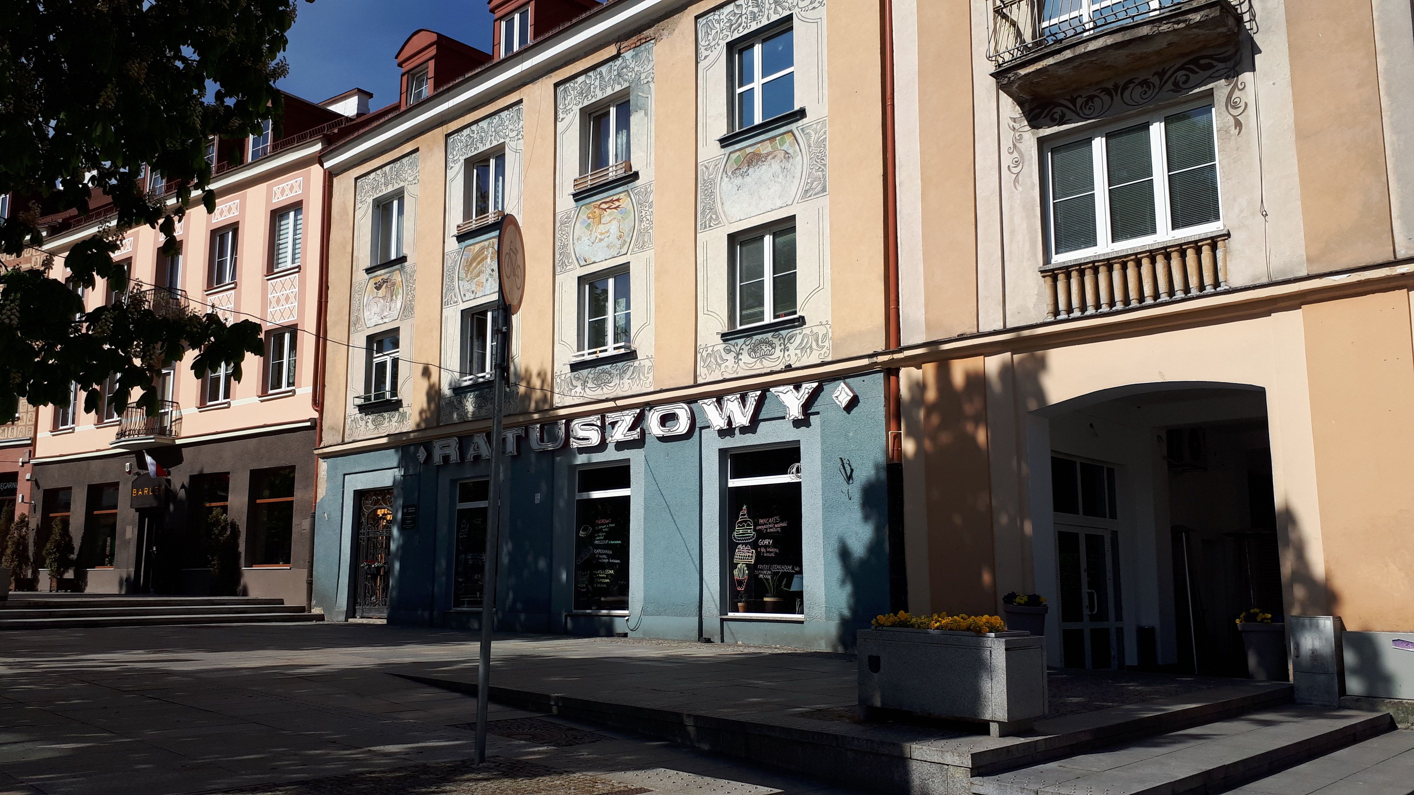 17 Rynek Kościuszki in Białystok /1 Lipowa Street